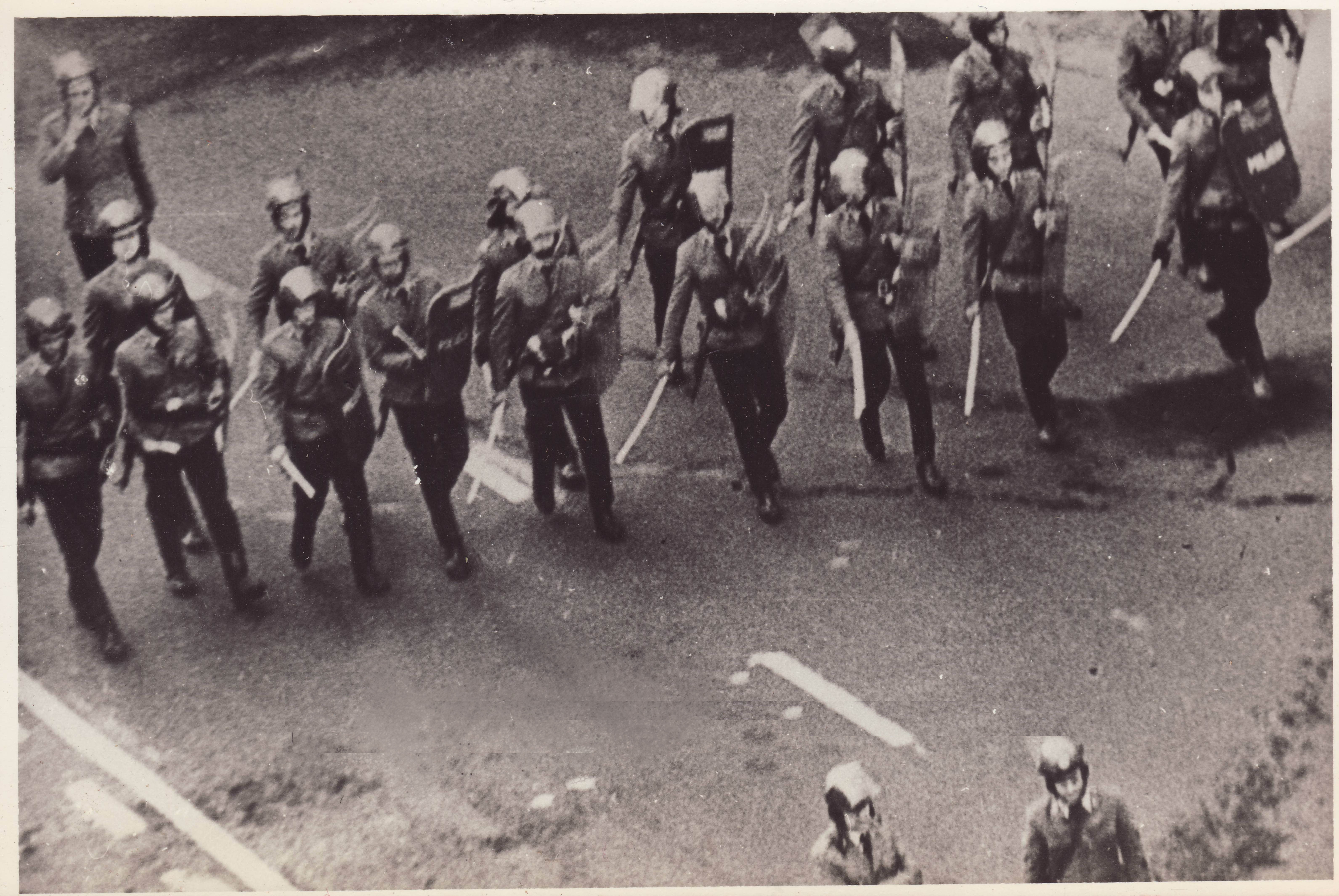 Set of photographs mostly documenting street demonstrations and police actions in Poland during the martial law of 1981-1983.